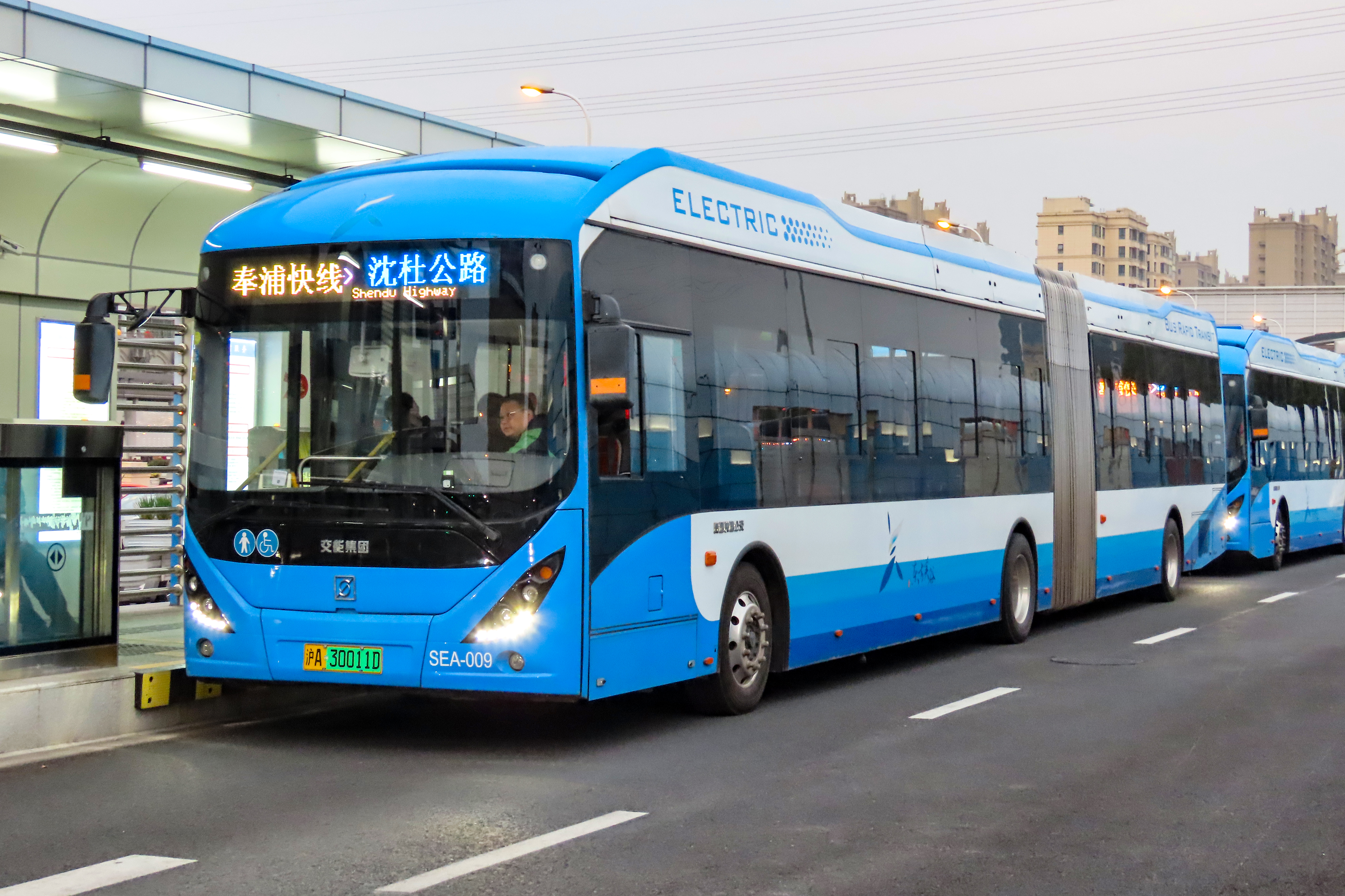 Fengpu Express (actually BRT) to Shendu Highway, using SWB6188BEV21.